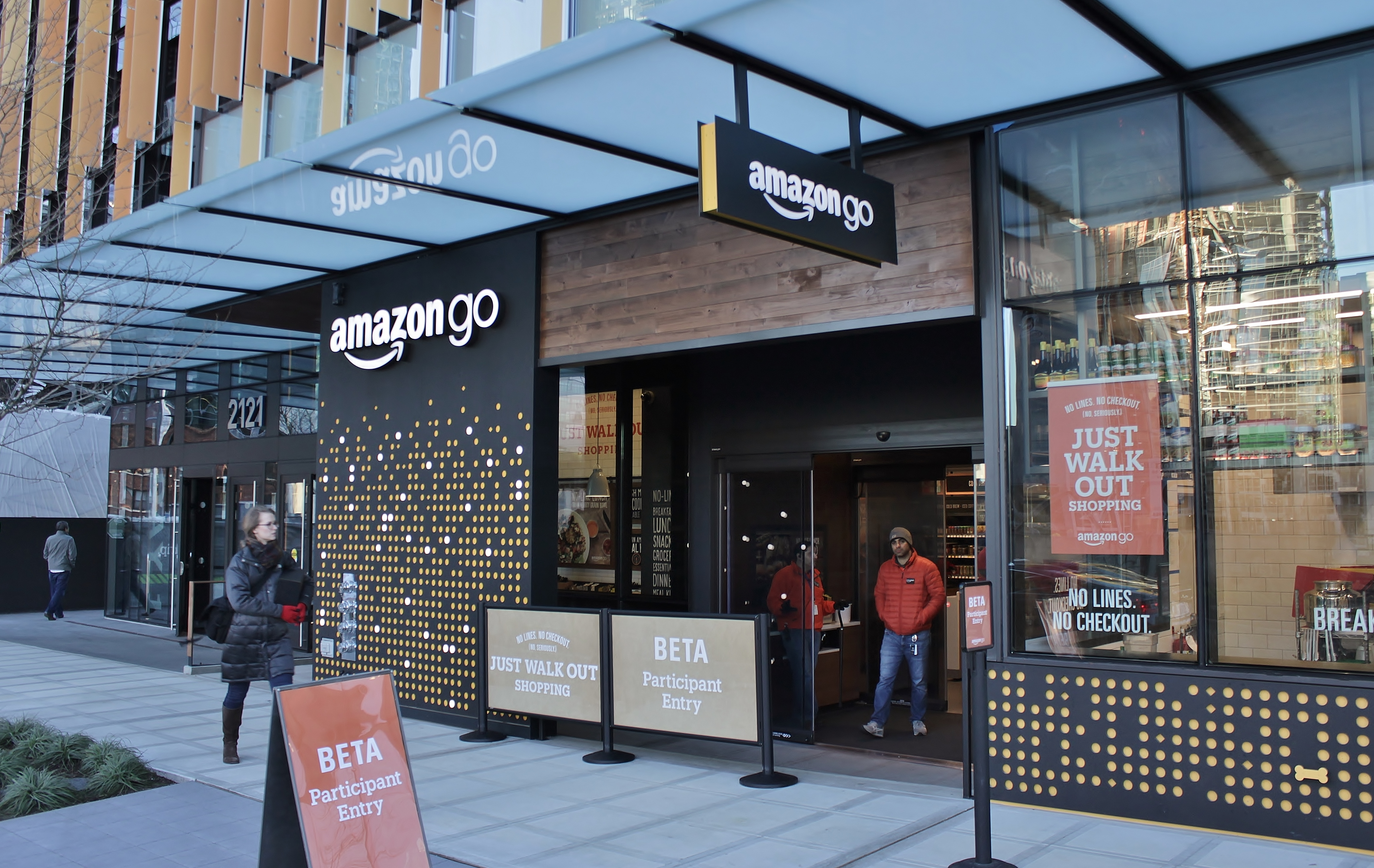 The prototype Amazon Go store at Day One, Seattle, Washington.